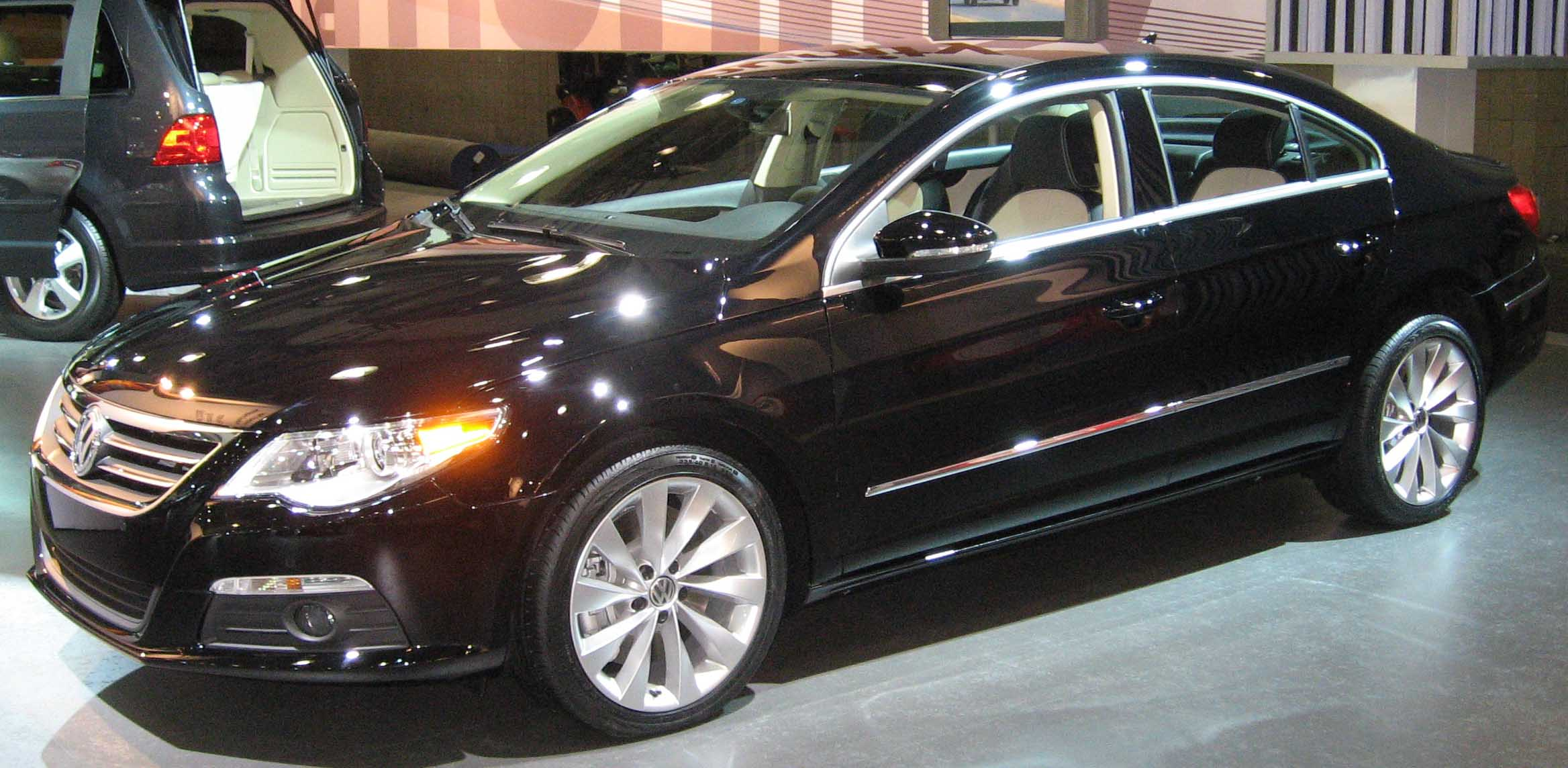 2009 Volkswagen Passat CC photographed at the 2008 New York Auto Show.